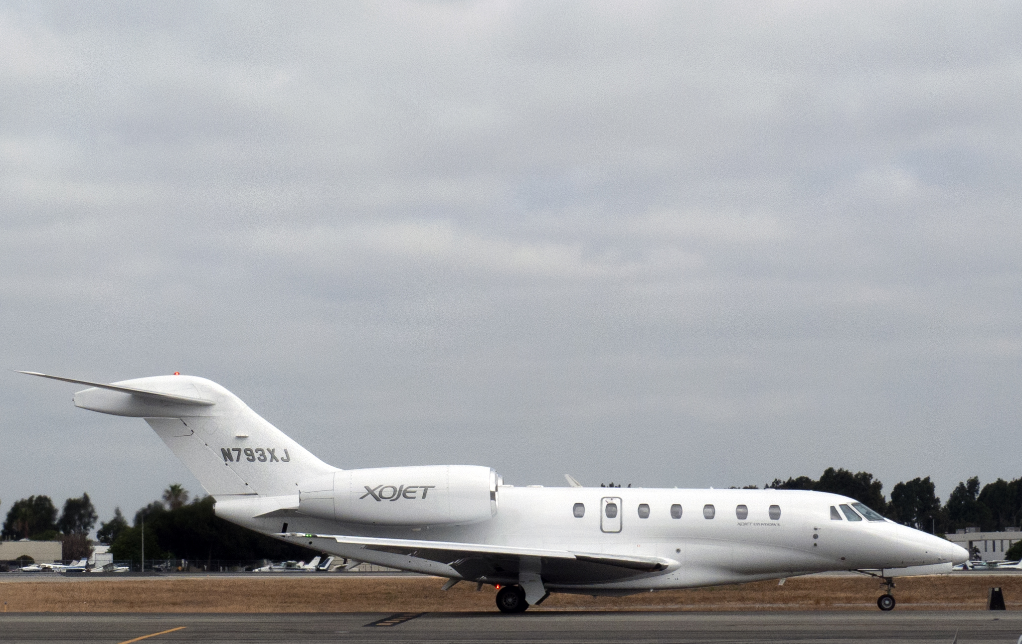 XOJET 1999 CESSNA 750